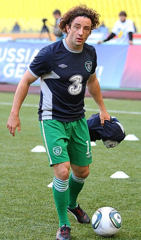 Stephen Hunt with the Republic of Ireland national football team in 2011.